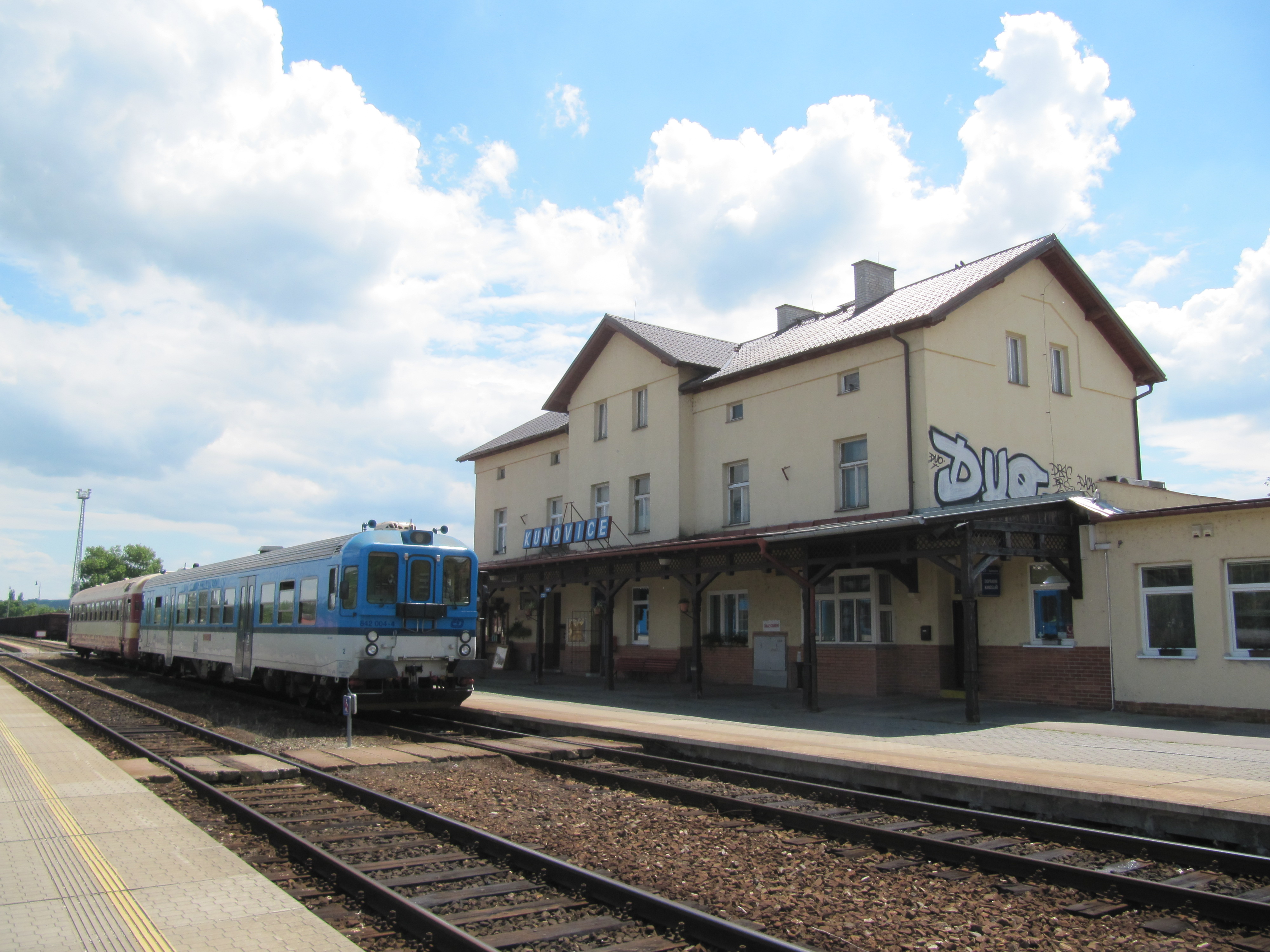 Kunovice, Uherské Hradiště District, Czech Republic. Train station.